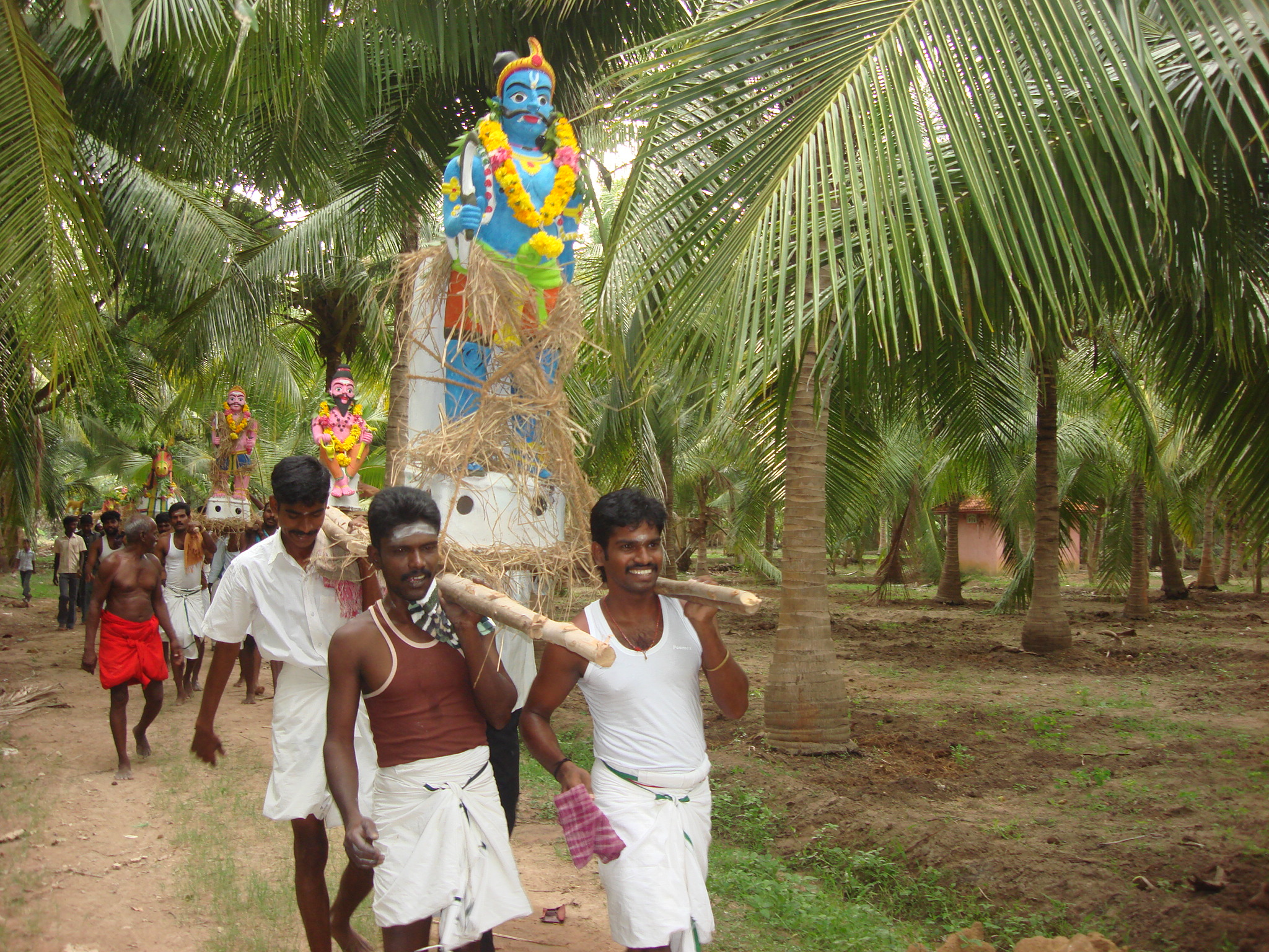 முடச்சிக்காடு அய்யனார் கோவில் திருவிழா முடச்சிக்காடு